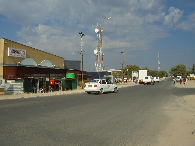 Photo taken June 2008 by R Gale showing the main street in Gantsi, Ghanzi District, Botswana. Published under Creative Commons Attribution 3.0. Taken from on 2008-06-09